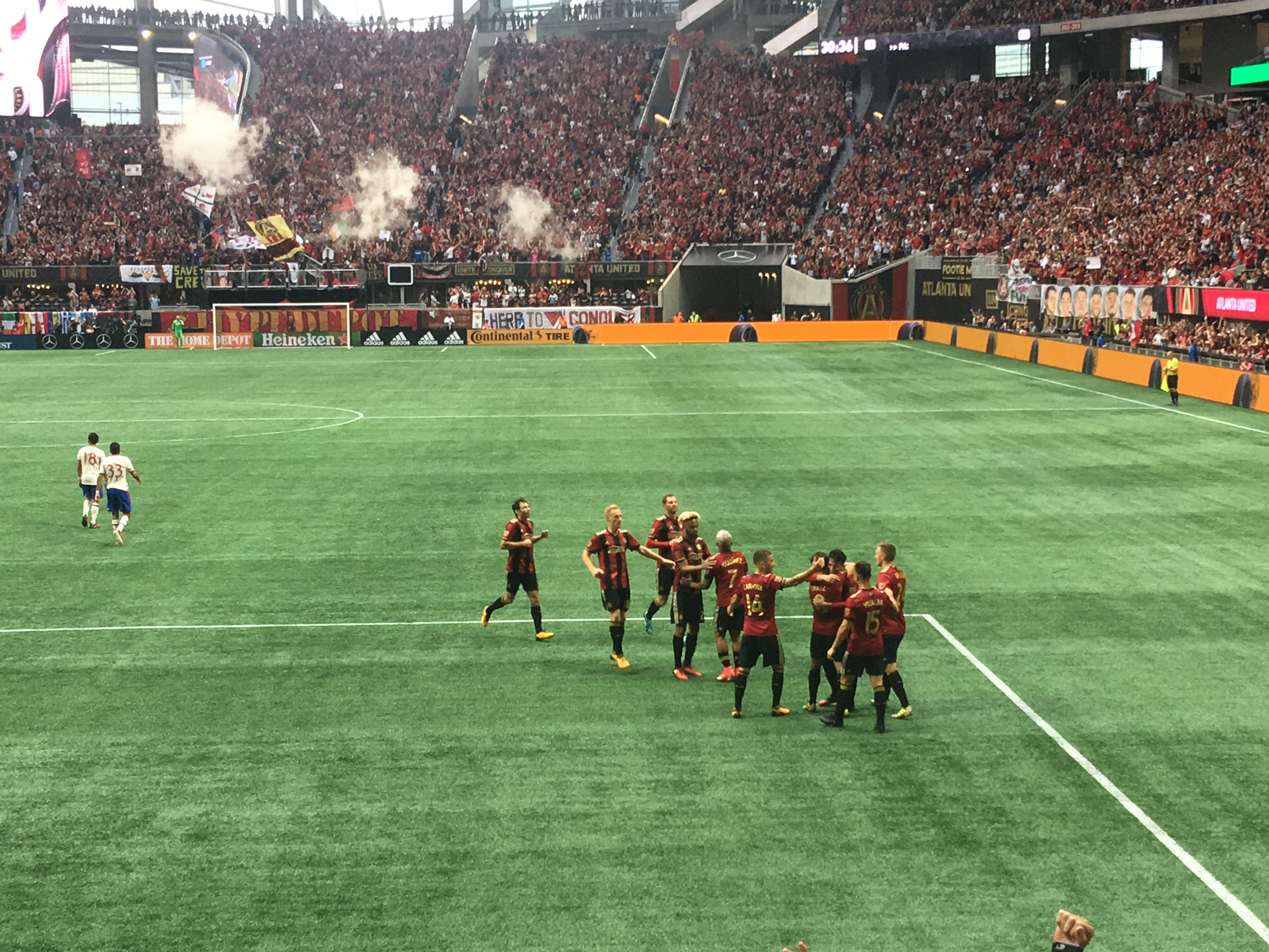 2017-10-22 -Atlanta United vs Toronto FC